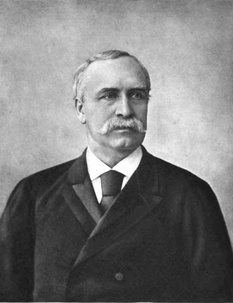 Black and white photographic portrait of United States entrepreneur Henry Villard at age 51.